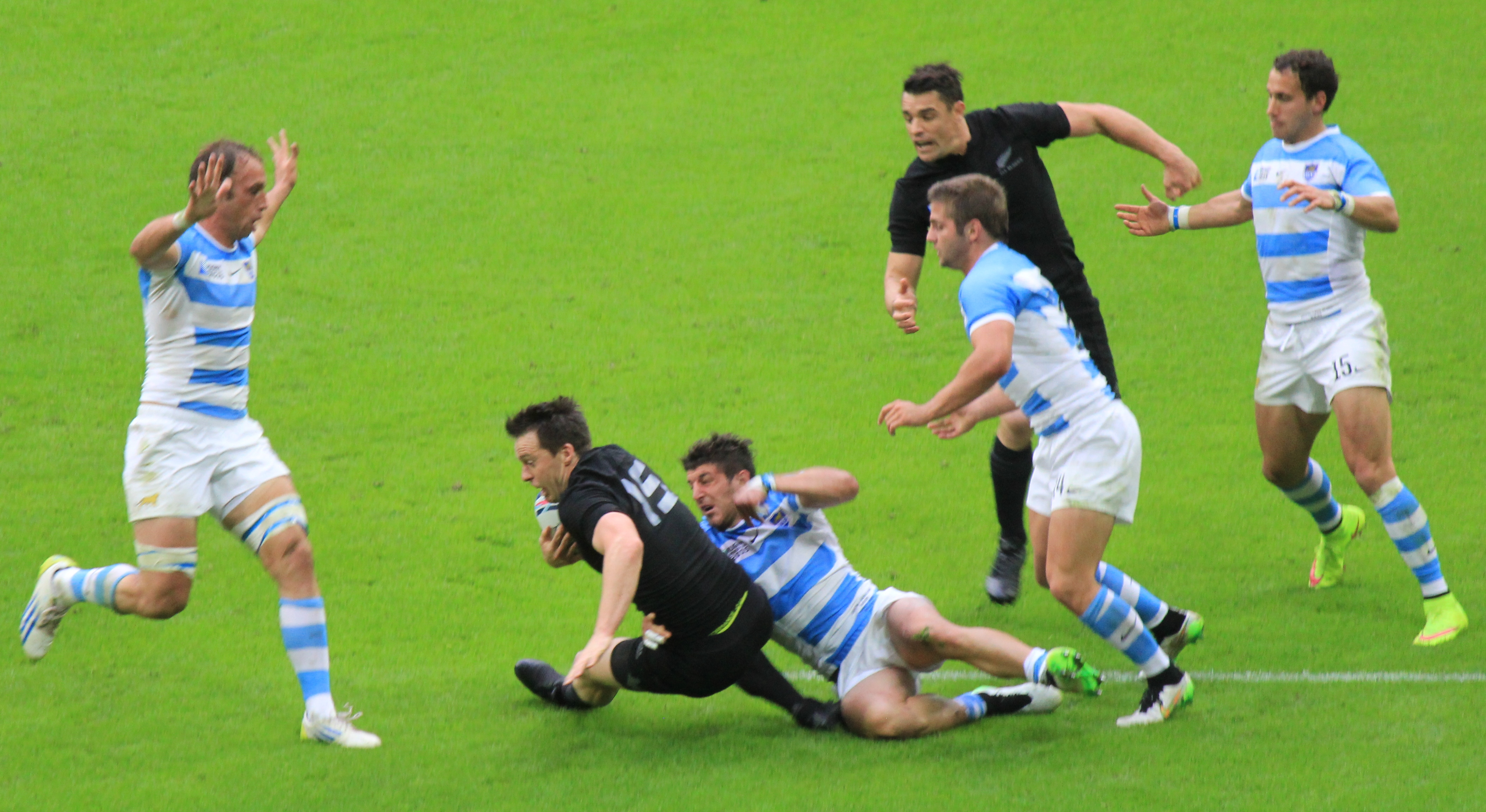 15-09 RWC New Zealand vs Argentina 056